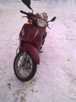 Honda Sh 50 mk2 1998 year - colour Red Fury